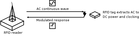 The diagram shows a typical backscatter scheme for RFID tags, which are powered using the energy contained in the requesting wave from the reader device.